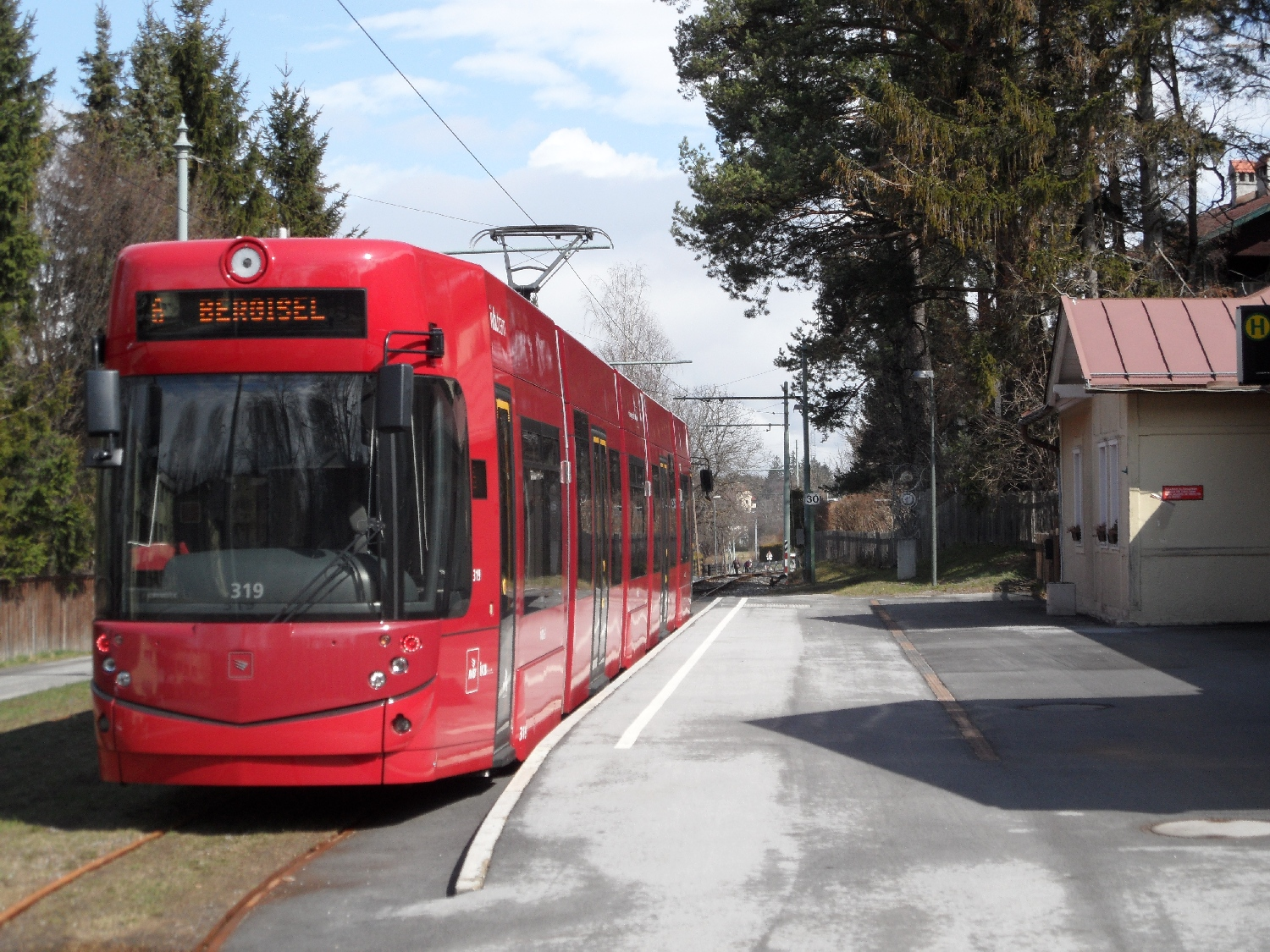 Bombardier-built tram 319 at the Igls terminus of the Mittelgebirgsbahn, a electric light railway connecting Innsbruck and Igls, which is also designated tram line 6 of the Innsbrucker Verkehrsbetriebe (Innsbruck transit agency, or IVB).